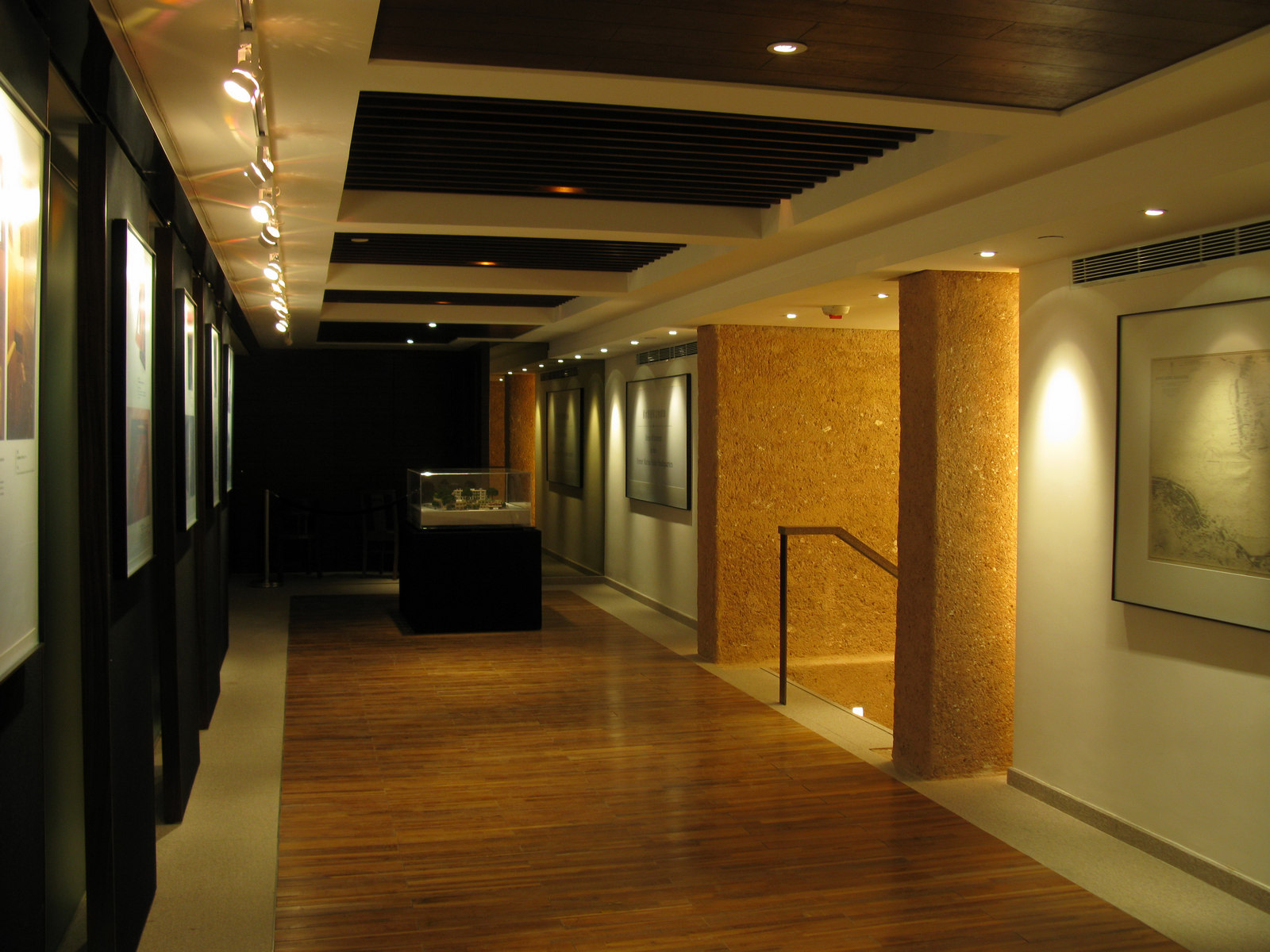 Items of Interest in the Former Marine Police Headquarters